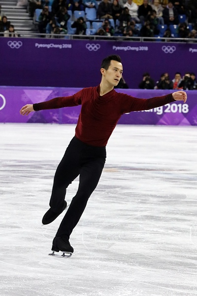 Patrick Chan (CAN) skates his free program at the 2018 Winter Olympic Games in PyeongChang (KOR)